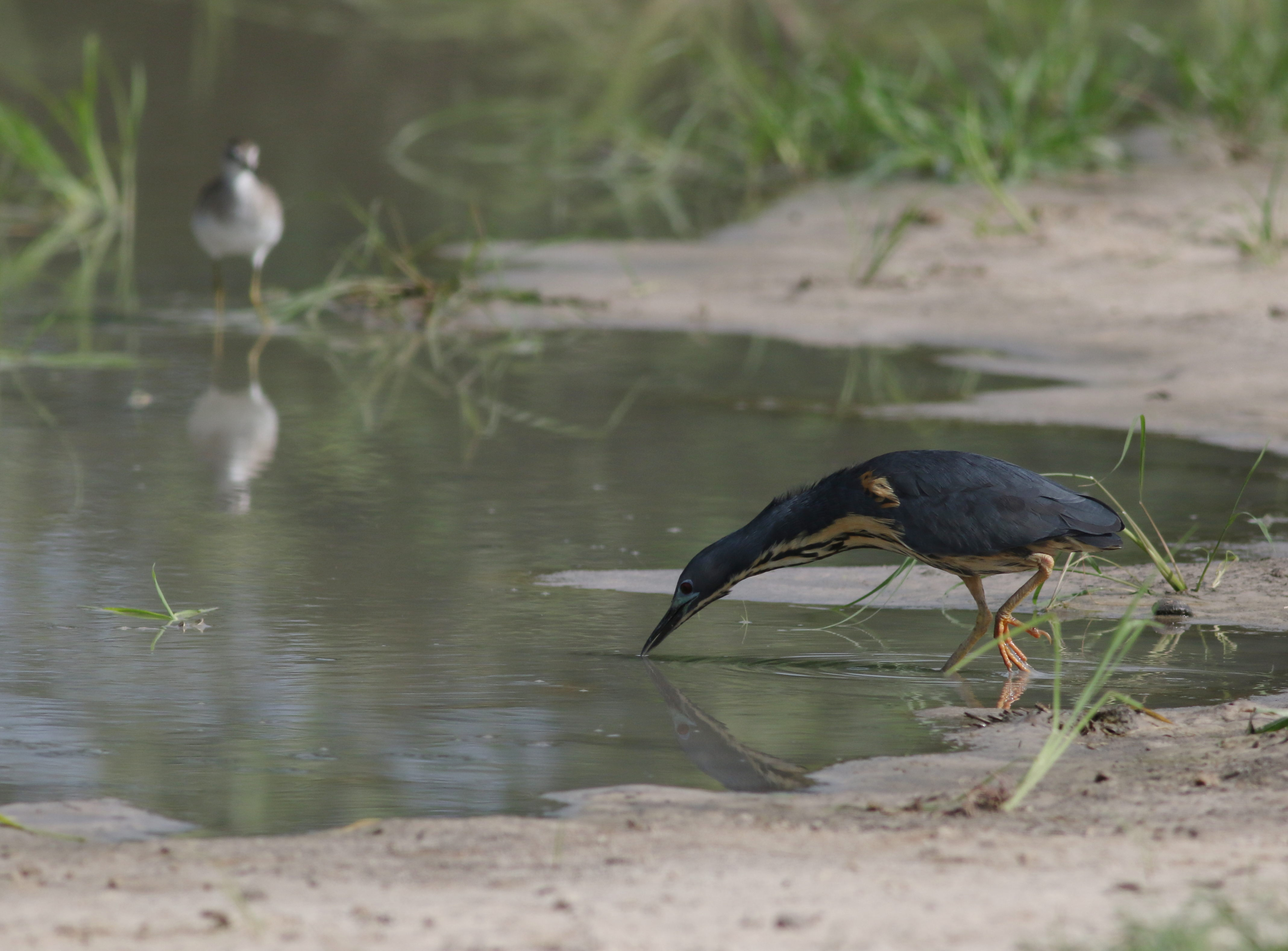 Dwarf bittern, Ixobrychus sturmii, at Harvey's Pans, Savuti in Chobe National Park, Botswana